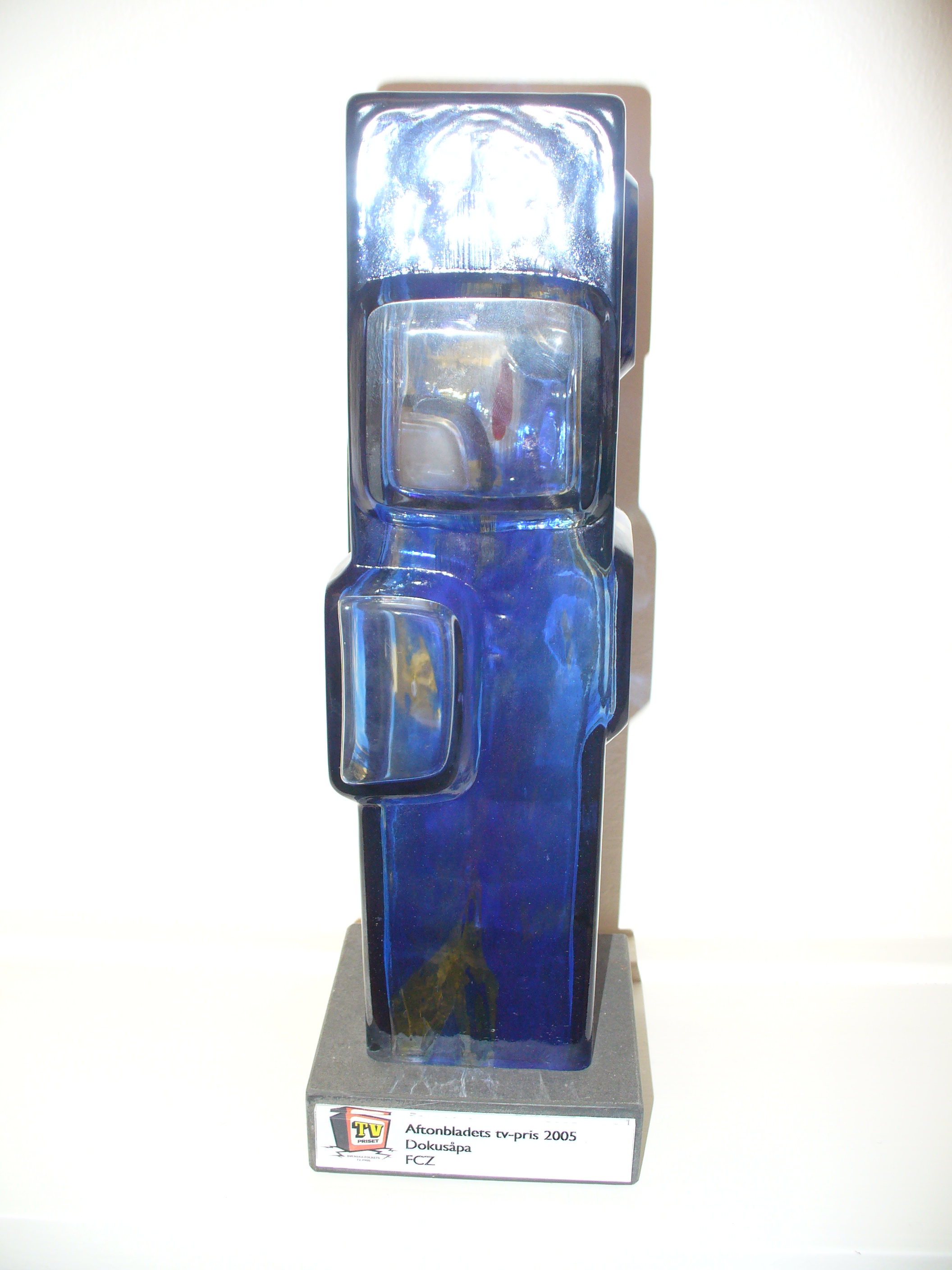 The Aftonbladet TV Award. Photo by Yvwv.